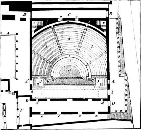 Odeion, Region VIII, Pompeii, plan.